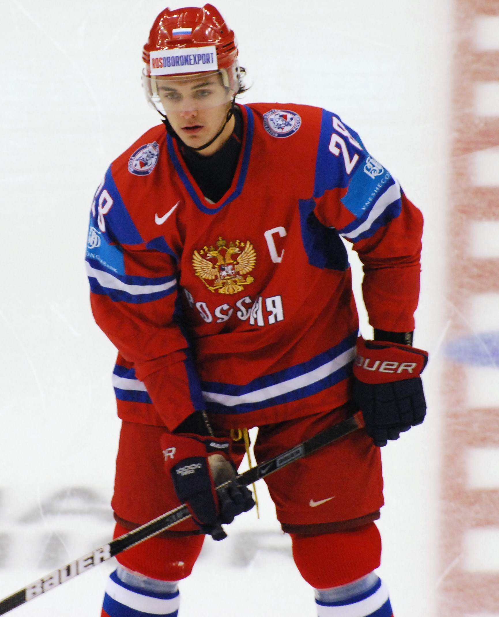 Nikita Filatov playing for Team Russia at the 2010 IIHF World Junior Hockey Championships.